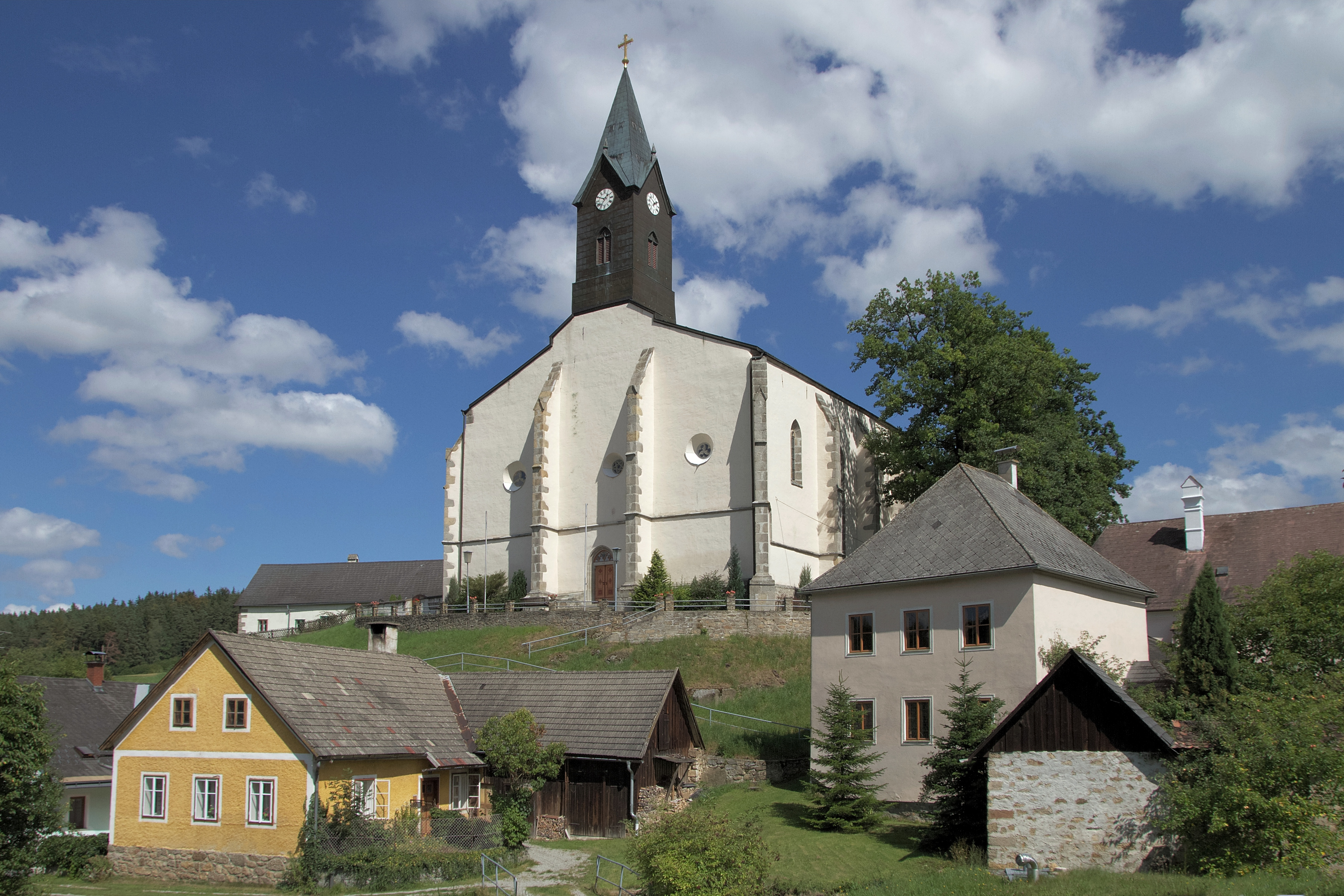 St. Wolfgang near Weitra with parish church.